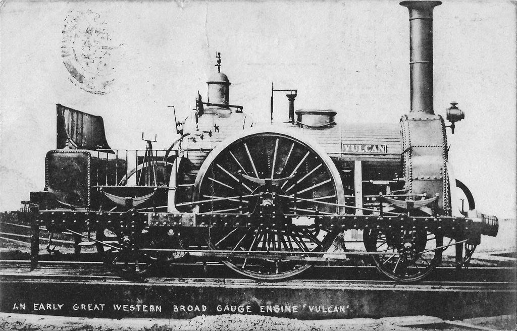 A Great Western Railway postcard of the Vulcan, a broad gauge steam locomotive. One of the first locomotives delivered to the company in 1837, it was originally a conventional locomotive with a separate tender but was rebuilt into this form as a tank locomotive in 1846. After it was withdrawn in 1868 it was used as a boiler at Reading for a further two years.